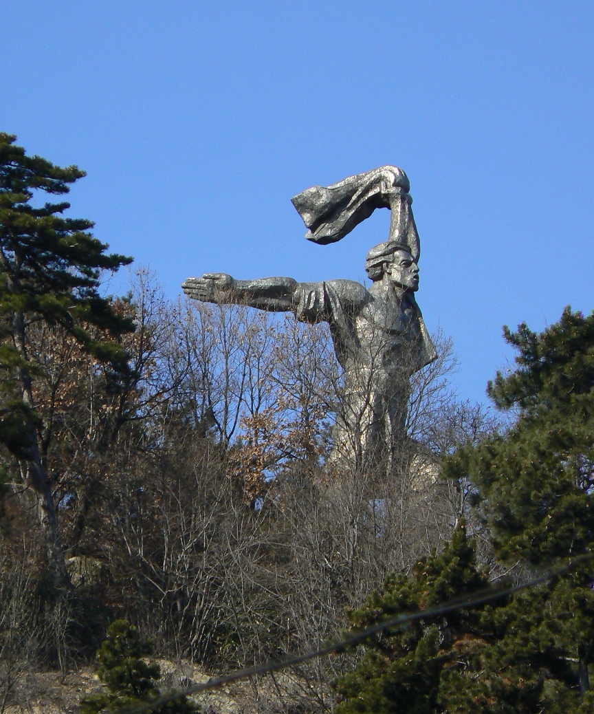 Monument of the September Riot, located on the heights over Muglij, Bulgaria